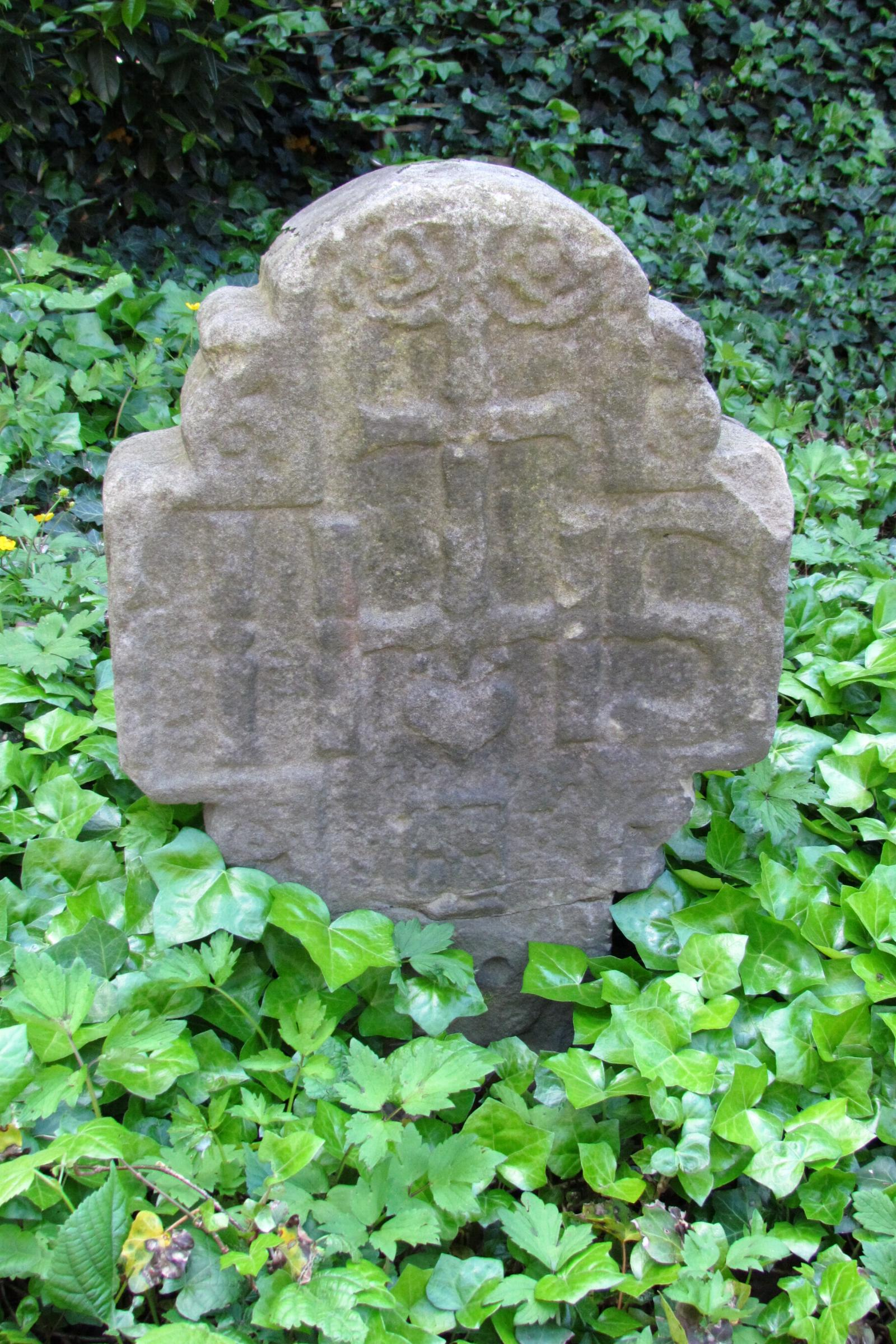 This is a photograph of an architectural monument.It is on the list of cultural monuments of Korschenbroich